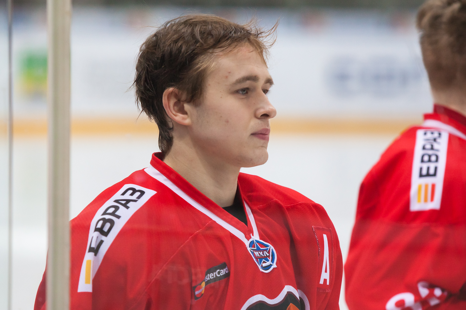 «Кузнецкие Медведи» на игре